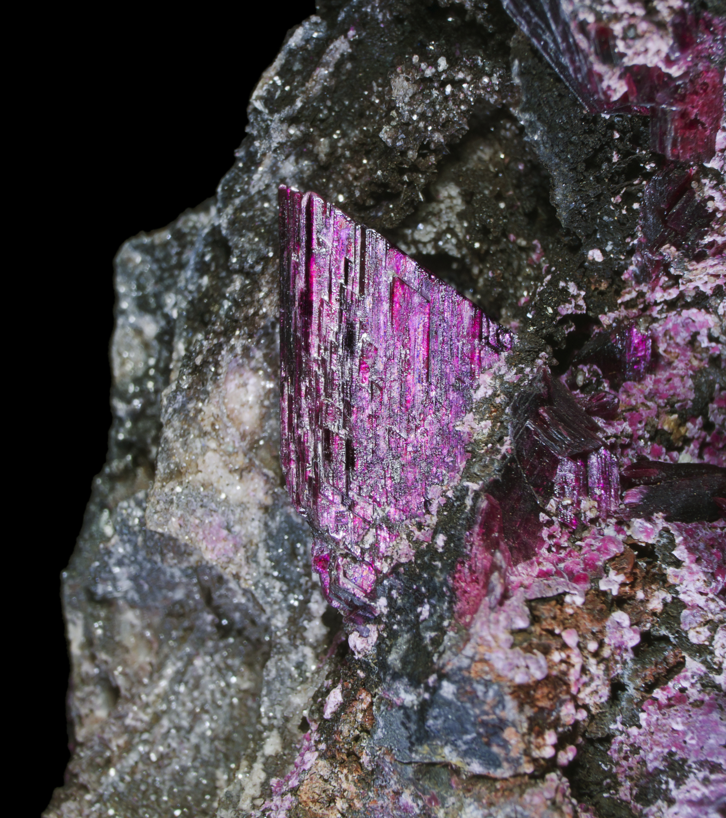 Erythrite Locality : Bou Azzer, Bou Azzer District, Tazenakht, Ouarzazate Province, Souss-Massa-Draâ Region, Morocco Size : 5.5 x 4.5 x 3 cm; XX1.7cm